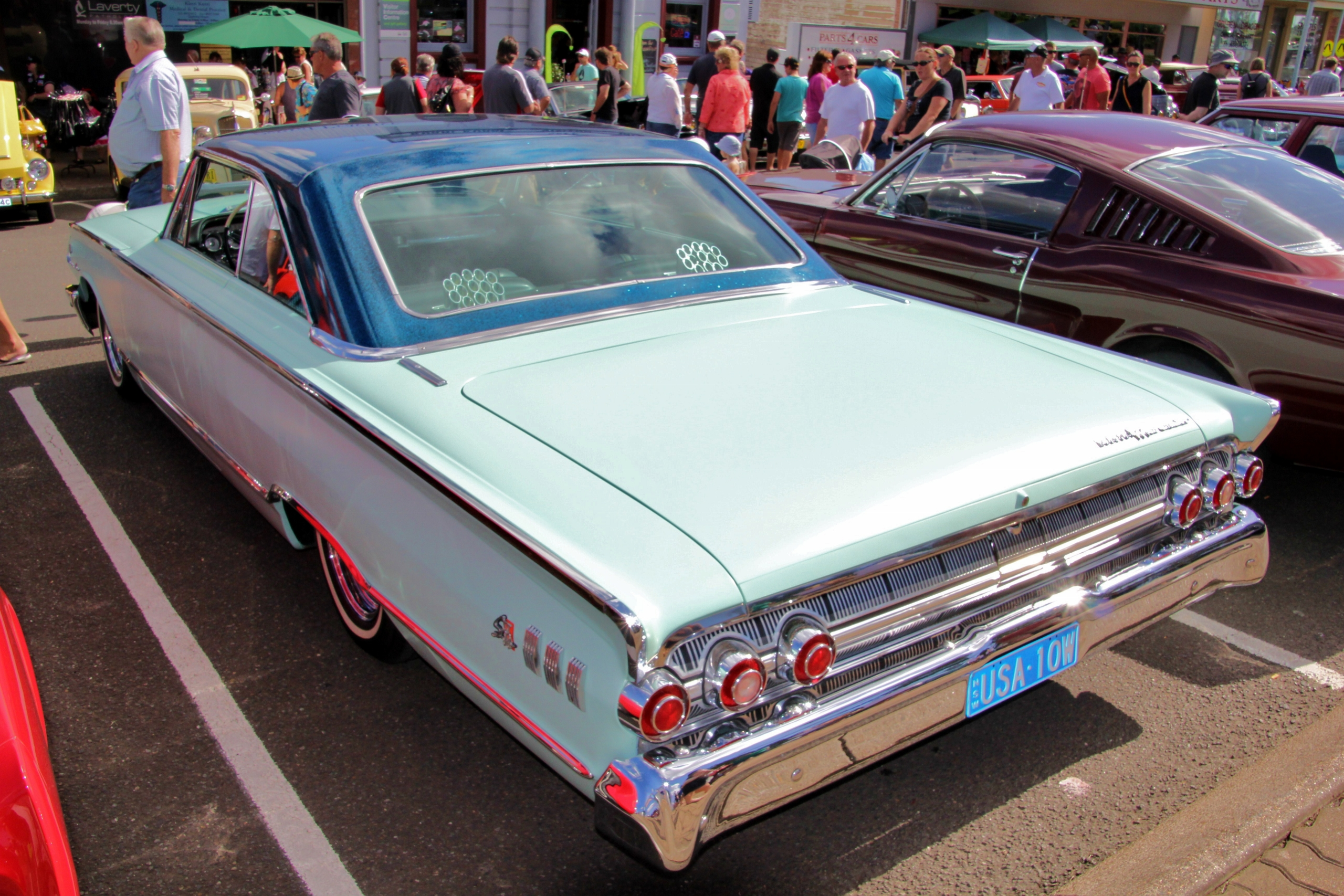 1963 Mercury Marauder S-55 coupe. Taken at the 2012 Kurri Kurri Nostalgia Festival, held in Kurri Kurri, New South Wales.